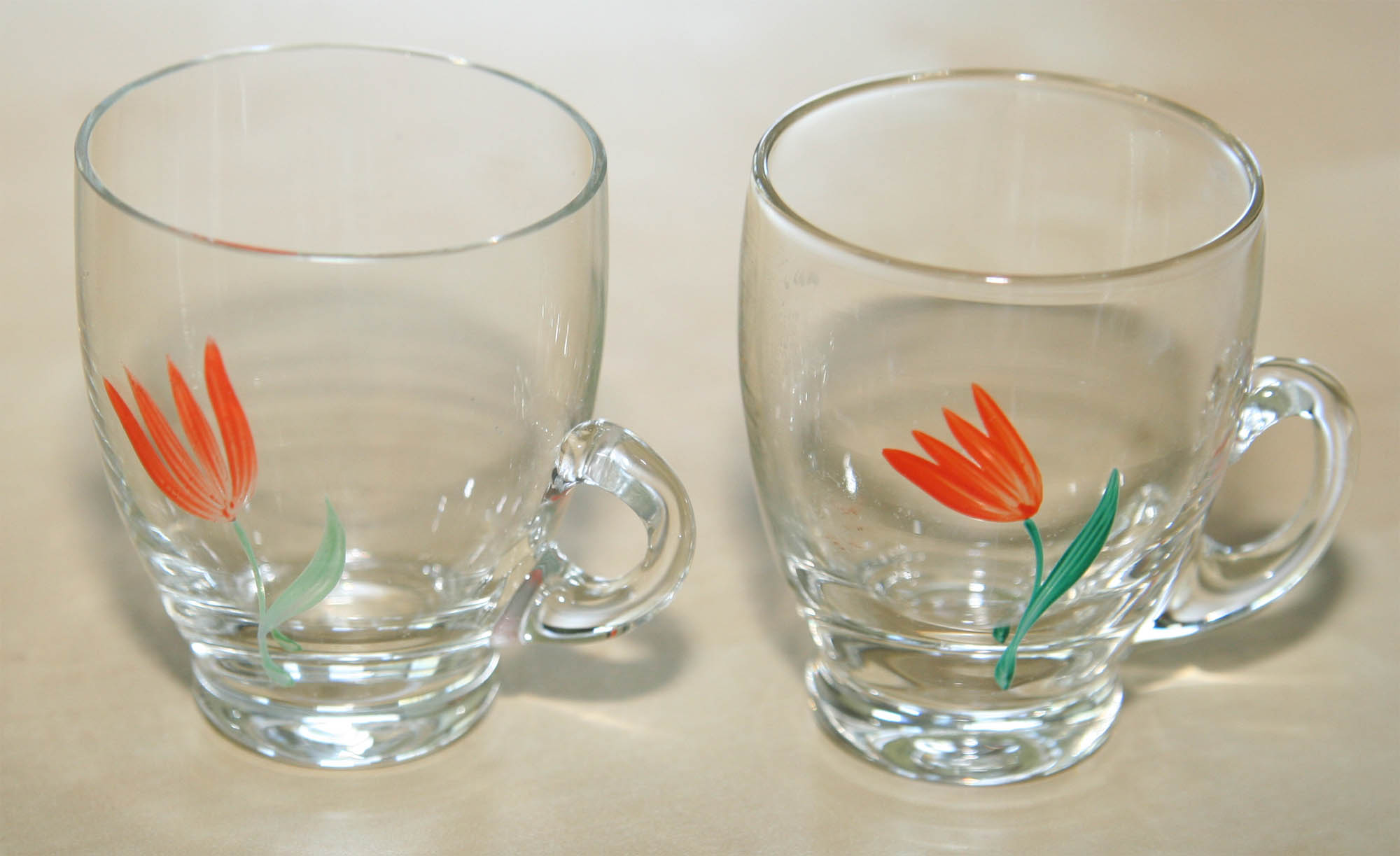 Cups for glögg